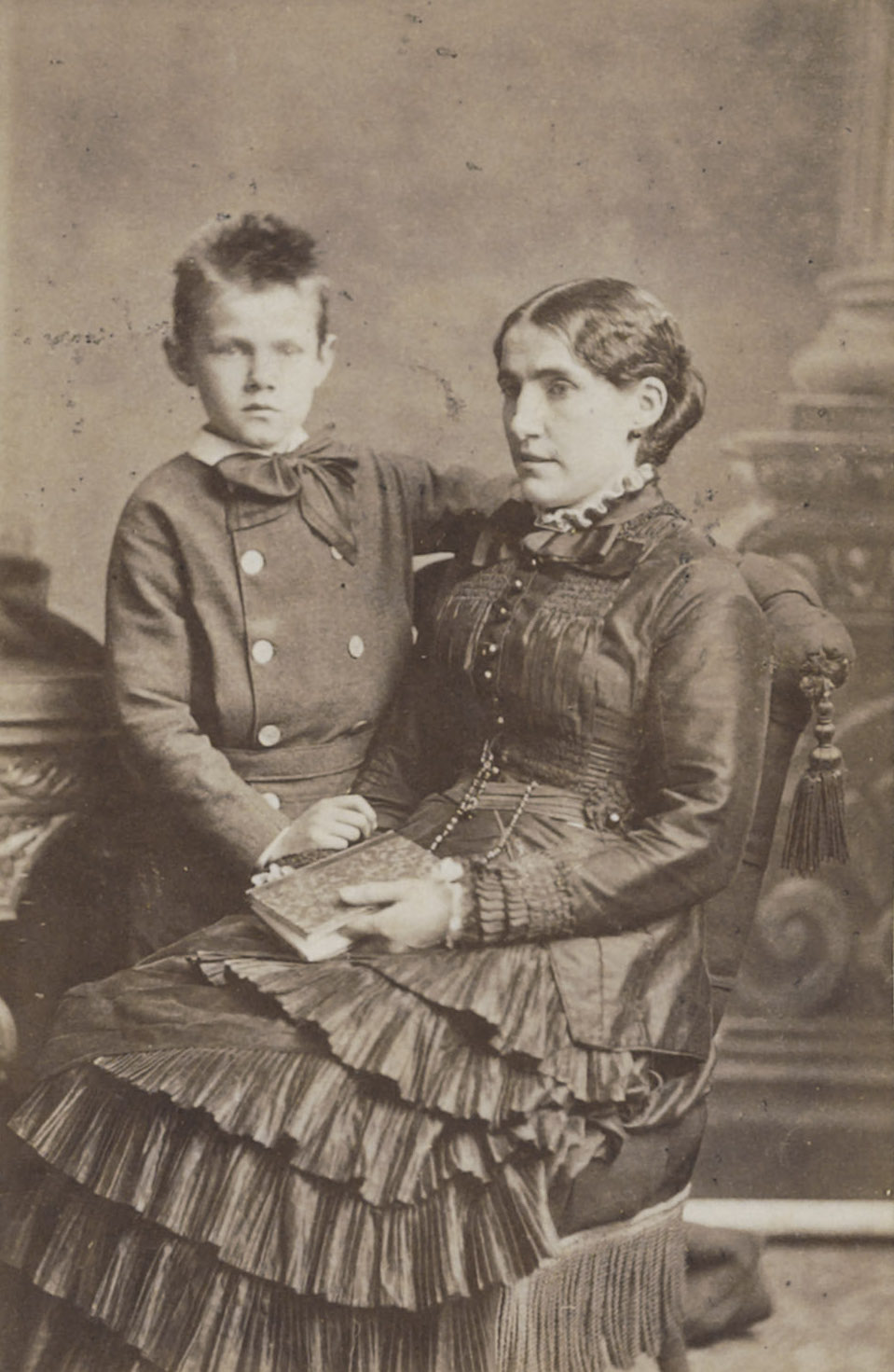 A photo of Kee Vos Stricker with her son taken around 1879/1880 by Albert Greiner, place unknown (b 4888 - 0001 V/1962 (foto), Brieven en Documenten, Van Gogh Museum, released into the Public Domain at the Geheugen van Nederland archive). Kee Vos was the young widow that Vincent van Gogh became infatuated with, an infatuation which ultimately led to his estrangement from his family.